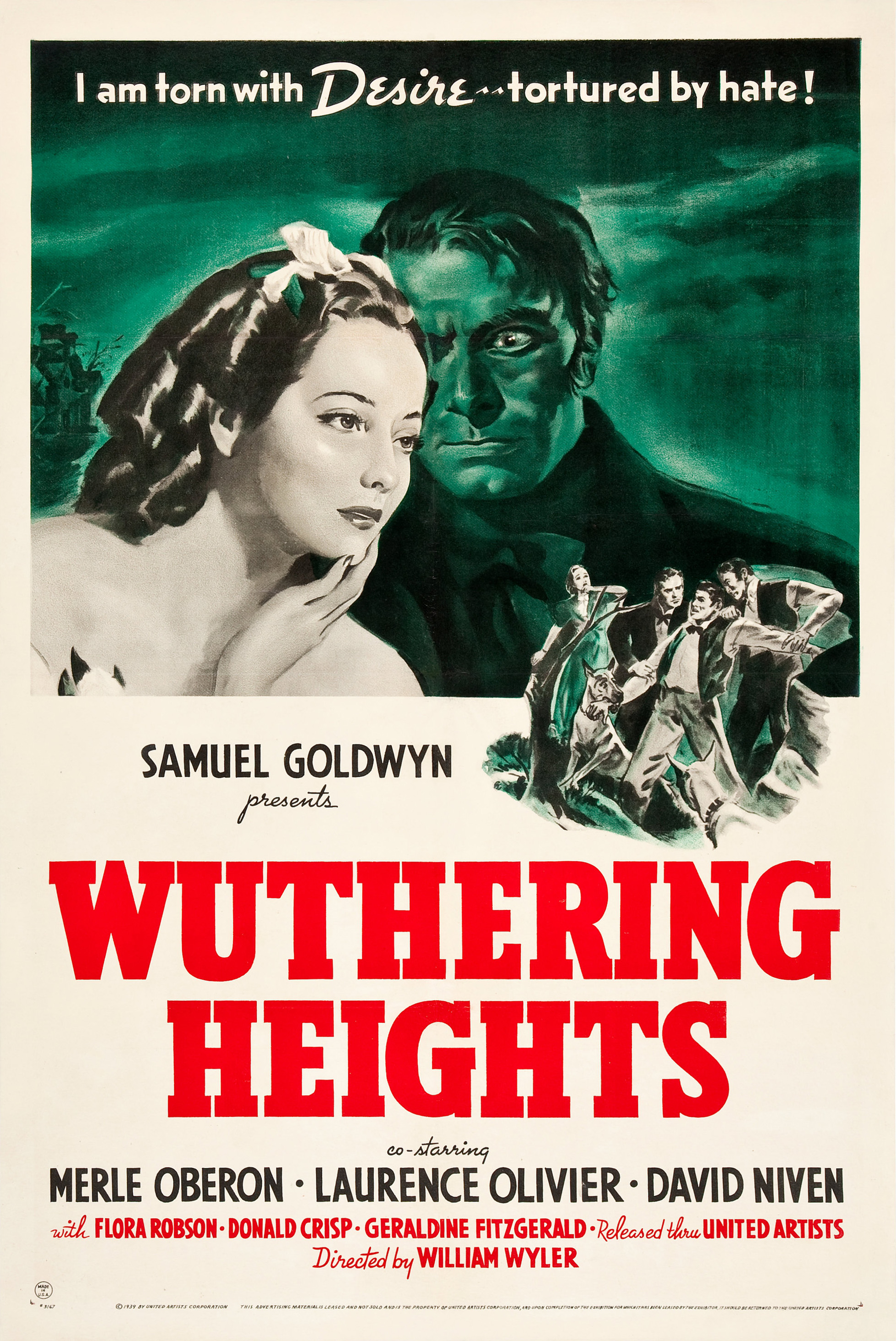 Theatrical poster for the 1939 film Wuthering Heights, an adaptation of Emily Brontë's.